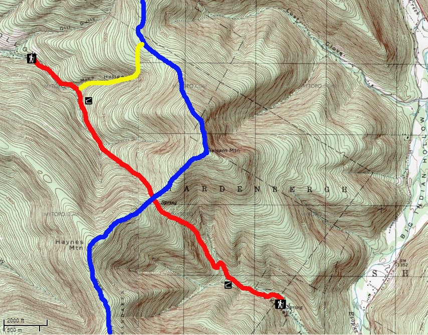 Map of Balsam Mountain, in Ulster County, NY, USA